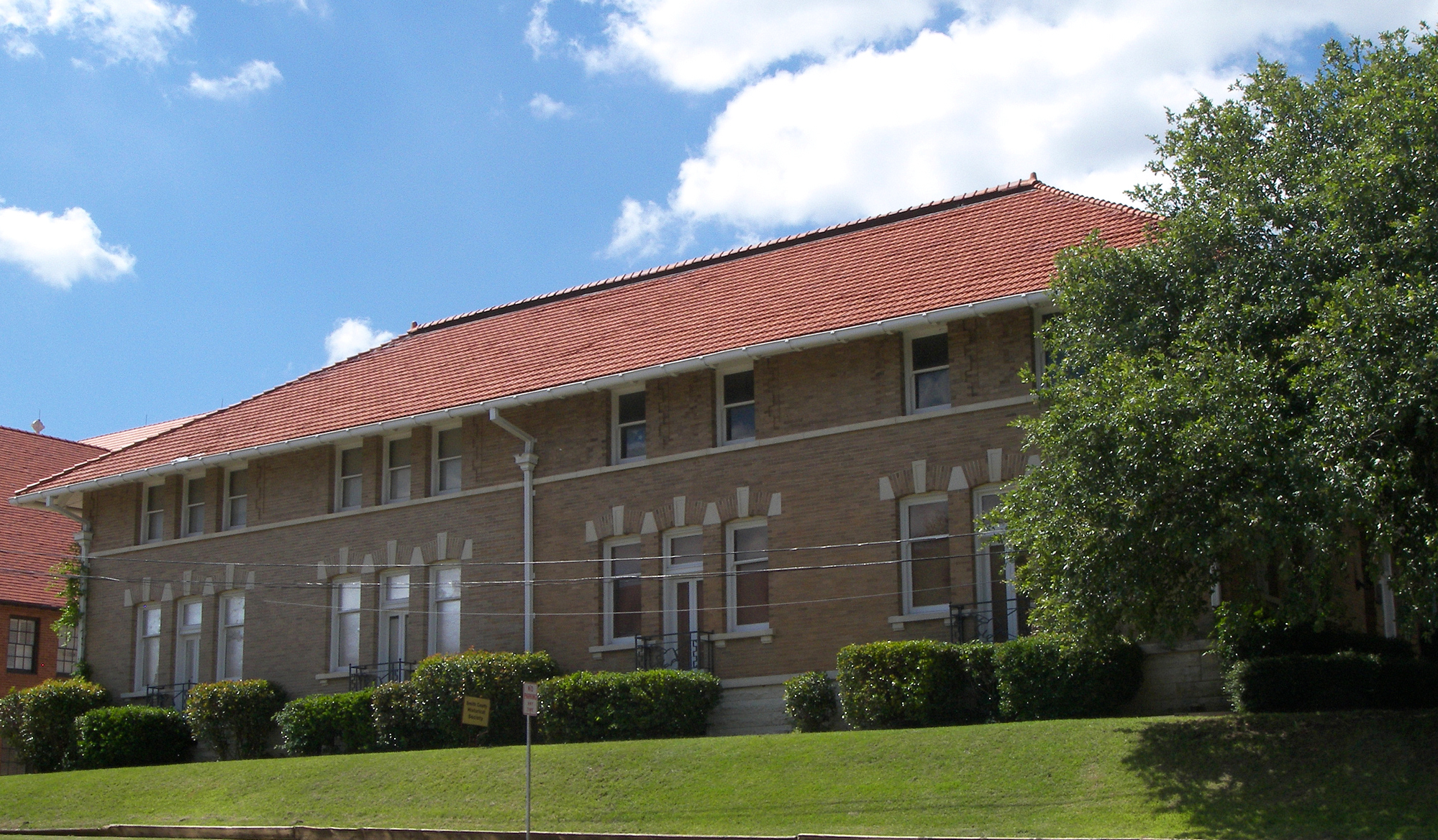 The Tyler Carnegie Library located at 125 S College St, Tyler, Texas, United States. It was listed on the National Register of Historic Places on March 26, 1979.